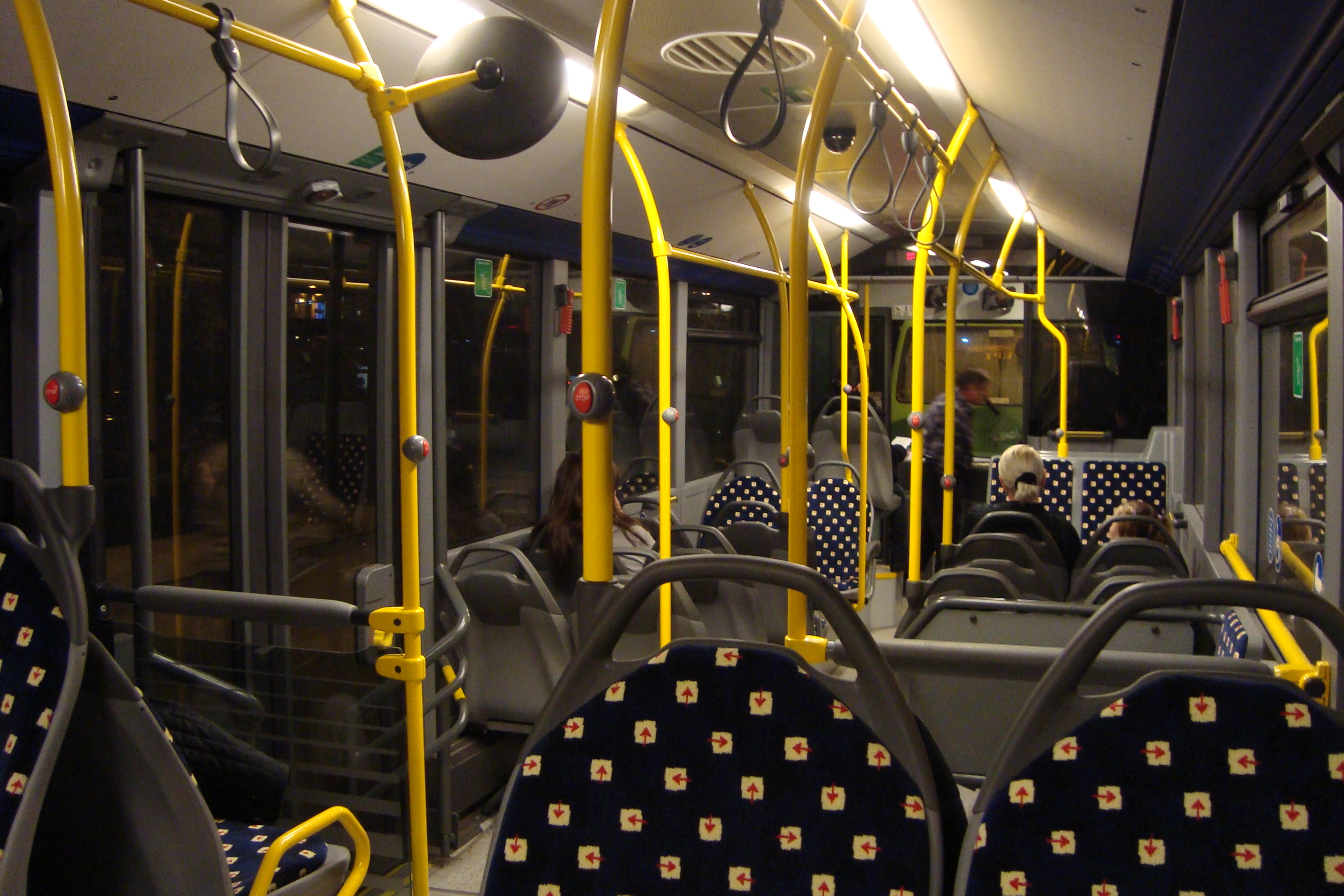 Interior of a Mercedes Citaro, by the Nicosia transport company (introduced since 2010)